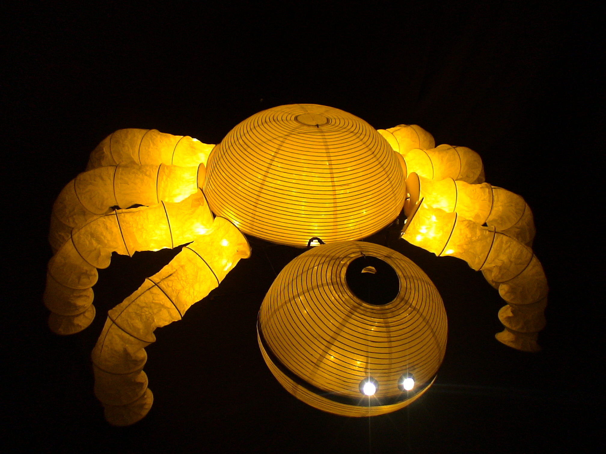 BIO CONSTRUCTION, giant puppet, Nikolai Zykov Theatre, Russia.Nikolai Zykov - Soviet and Russian actor, producer, artist, designer, puppet-maker, master puppeteer, author of over 20 puppet performances. Nikolai Zykov has created and has made over 80 puppet vignettes with participation of marionettes, hand, rod, giant, radio-controlled and experimental puppets. Nikolai Zykov has performed in 35 countries around the world.